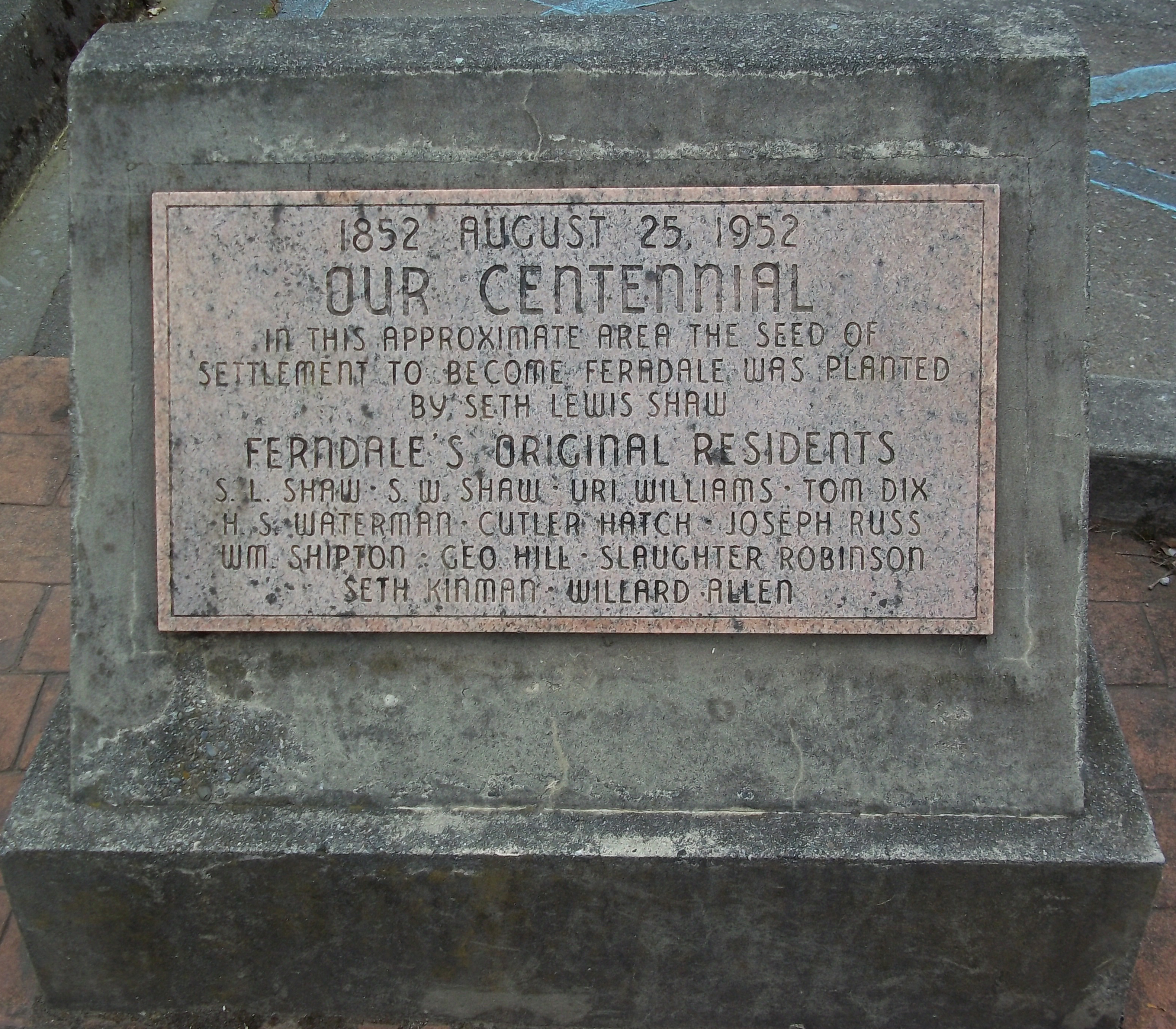 Photograph of the Centennial Plaque for Ferndale, California. Located on Main Street in Ferndale. Marble plaque mounted on concrete, erected in 1952.